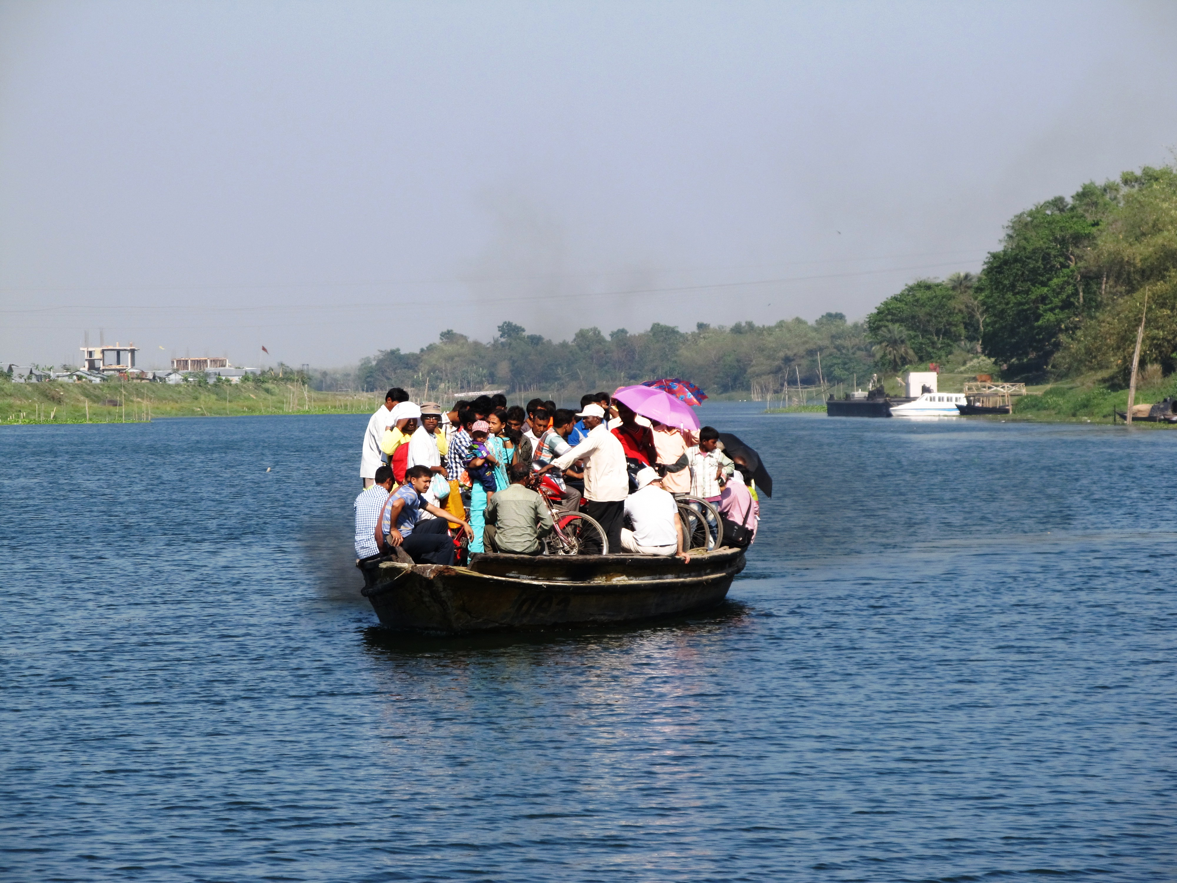 Passenger crossing the Jalangi river